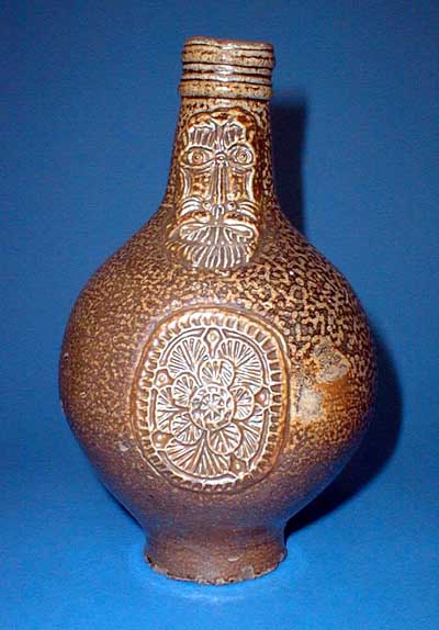 Bellarmine jug, 8" tall